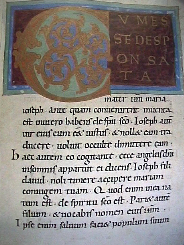 A page from the Bamberg Apocalypse Large decorated initial "C". Text from Matthew 1:18-21.